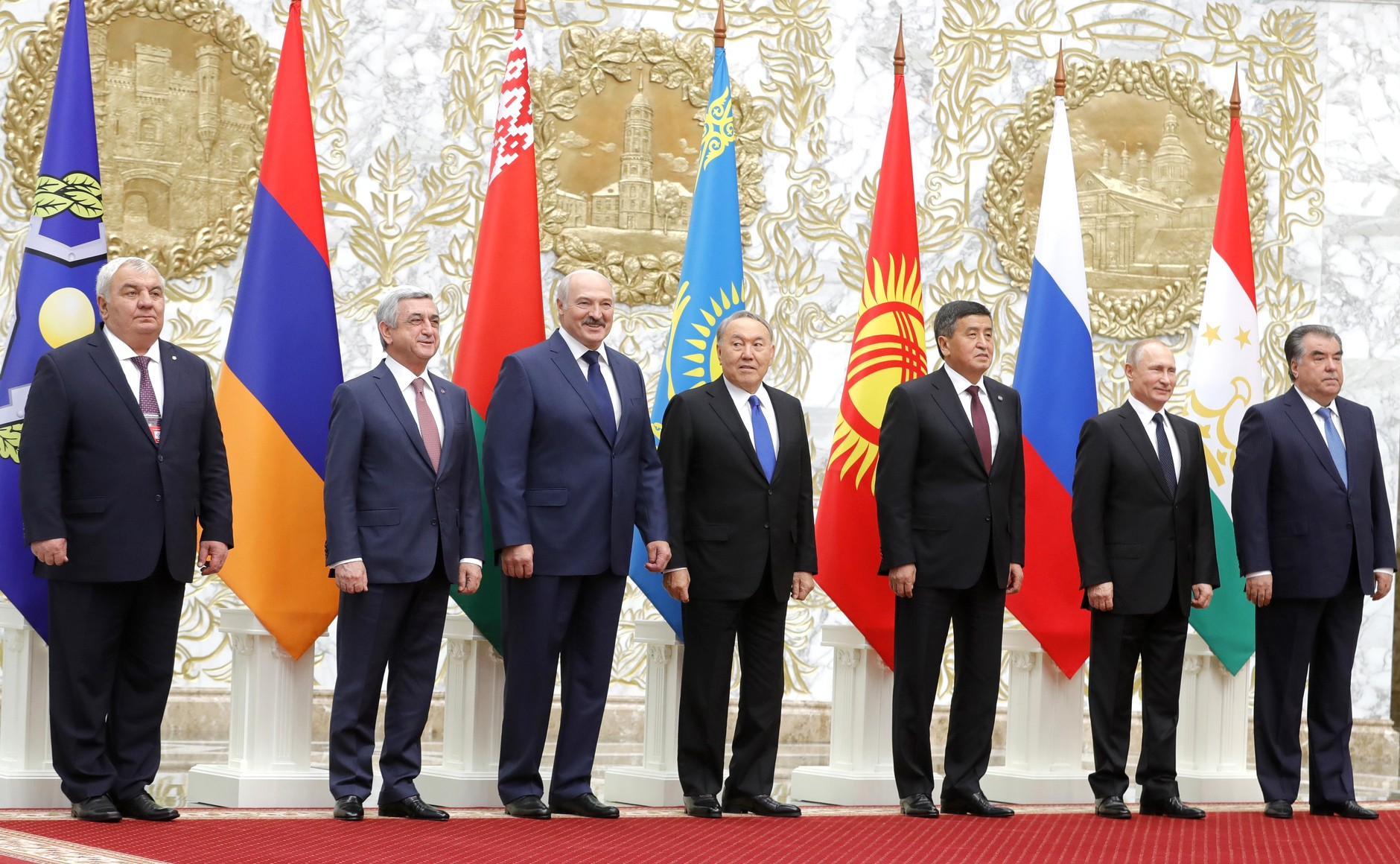 Participants in the CSTO Collective Security Council meeting.